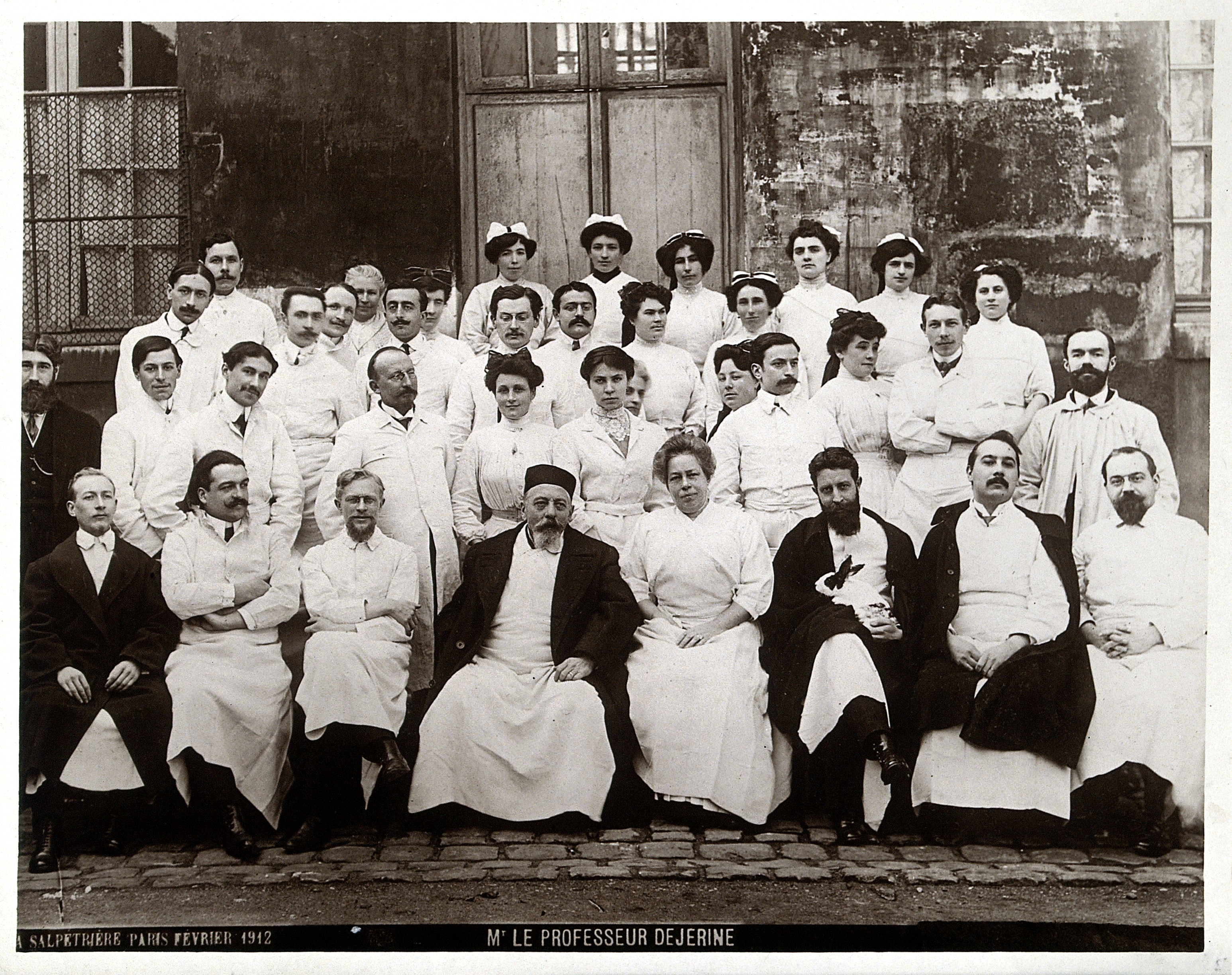 Jules Joseph Dejerine, Mrs J.J. Dejerine and assistants at the Salpêtrière. Photograph. Iconographic Collections Keywords: portrait photographs